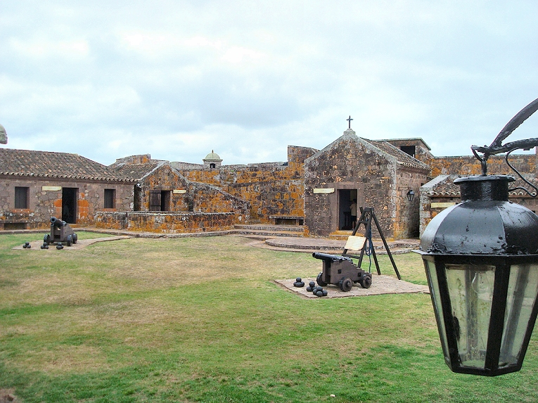 Fuerte San Miguel, 8km west of Chui, near the border with Brazil, Uruguay.